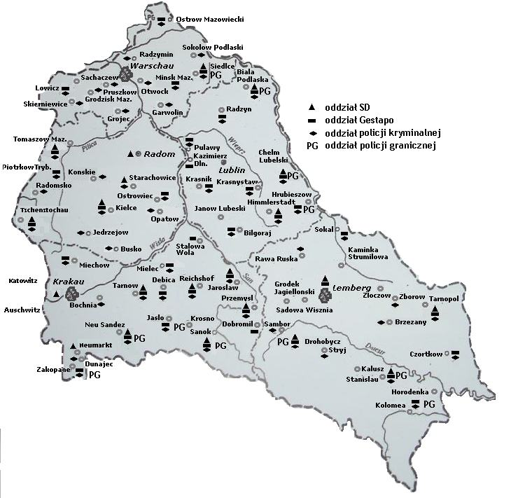 Map of the General Government / Mapa Generalnego Gubernatorstwa Legend: SD unit Gestapo unit Criminal police unit Border guard unit